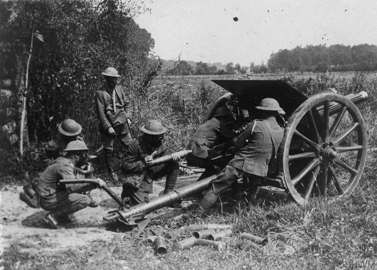 The British Army on the Western Front, 1914-1918 A British 18 pounder field gun in action near St. Leger-aux-Bois, 5 August 1916.